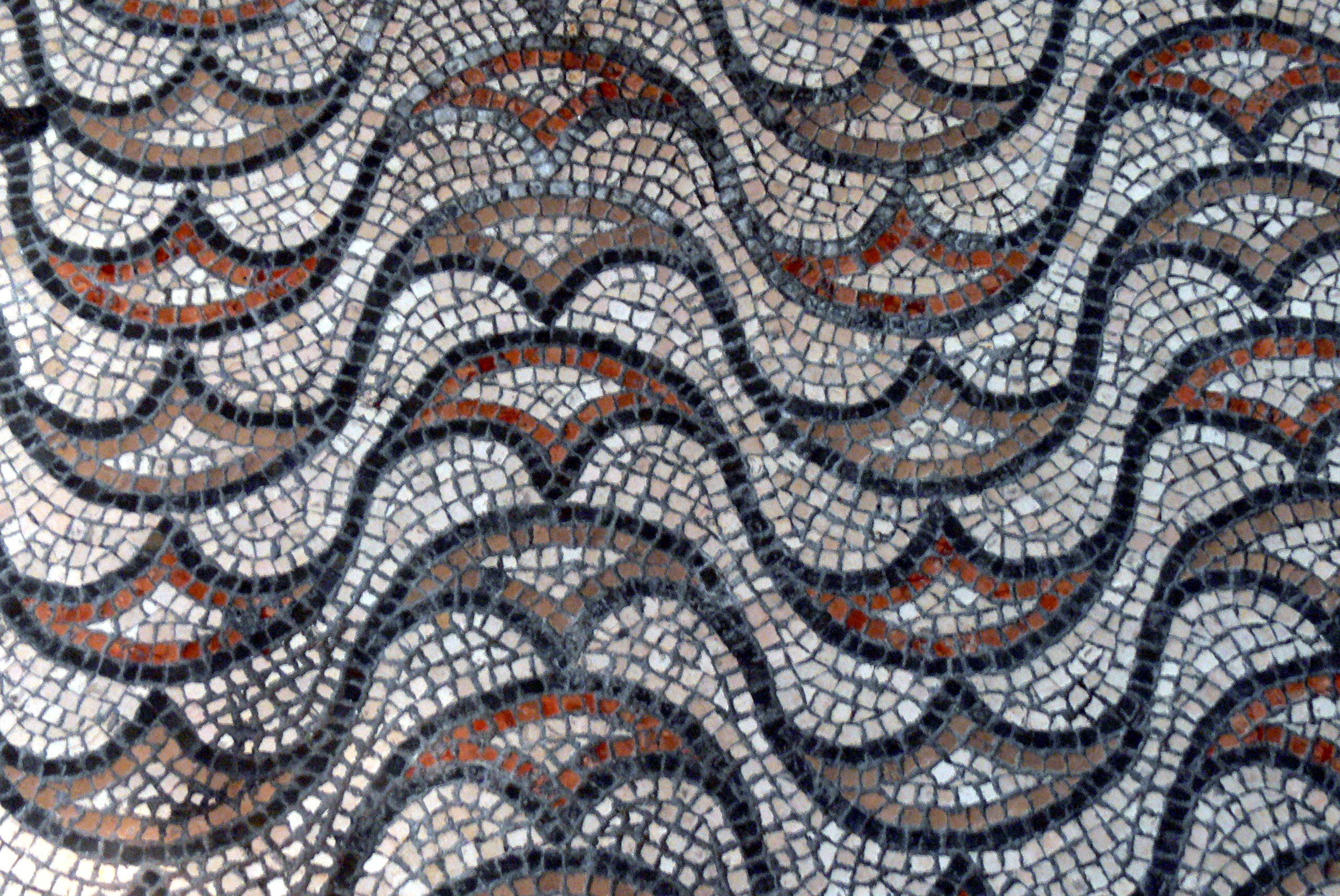 Geometrical mosaic (6th century CE) — made from tesserae. Cathedral of Sant'Eufemia — Grado, Italy.